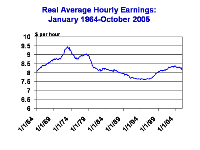 United States Real wages from 1964 to 2004